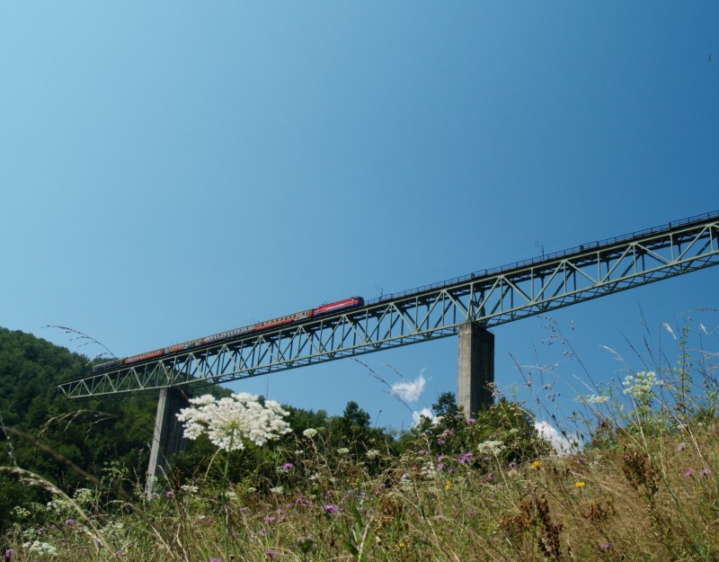 A ŽCG (Zeleznice Crna Gore, Railways of Monte Negro) 461 class electric locomotive is pulling the international fast train Tara over Slijepac Most on its way to Serbia in Montenegro.